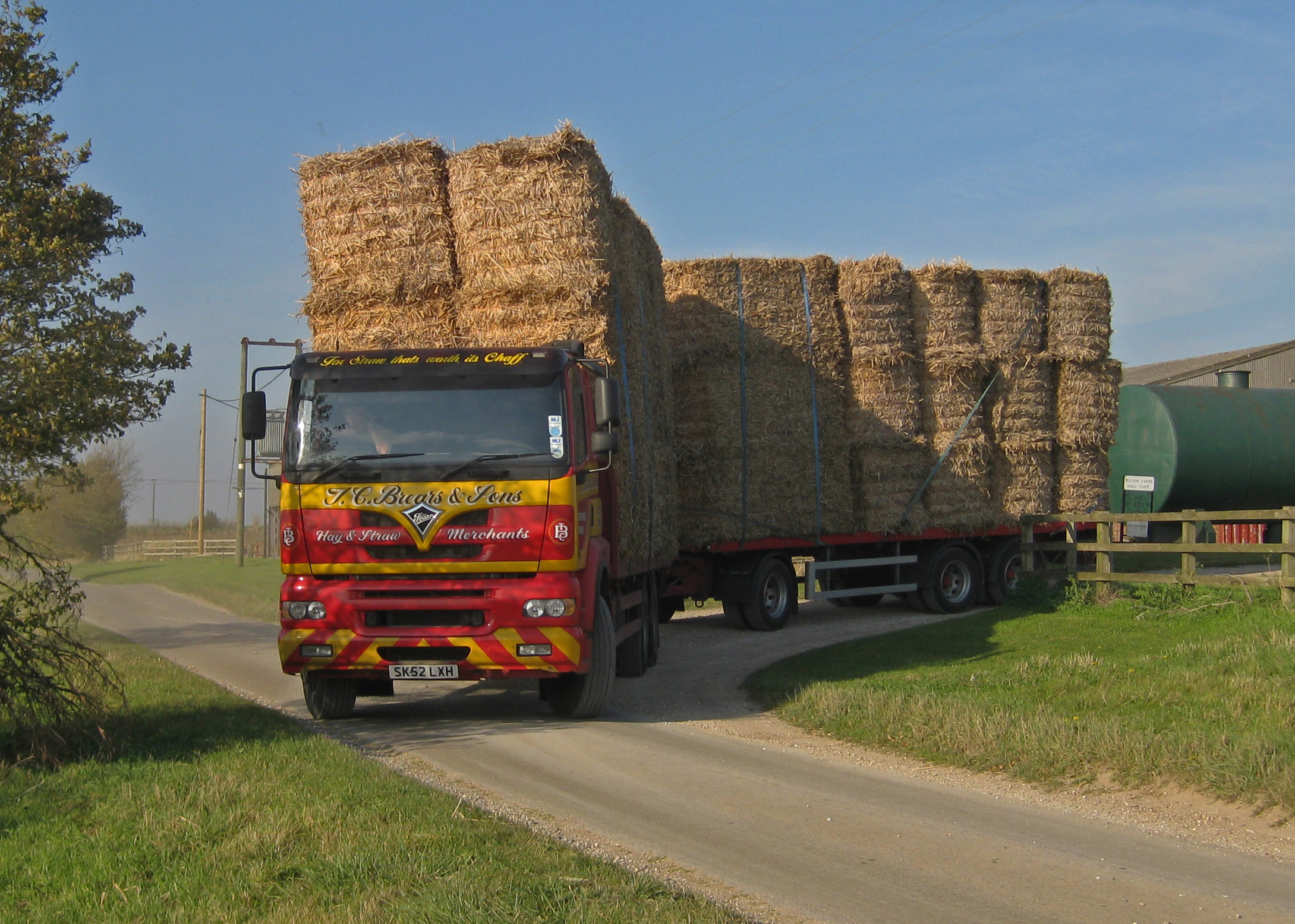 T.C.Brears & Sons' Foden truck transporting Miscanthus bio-fuel square straw bales away from a farm near Bonby, North Lincolnshire, England.